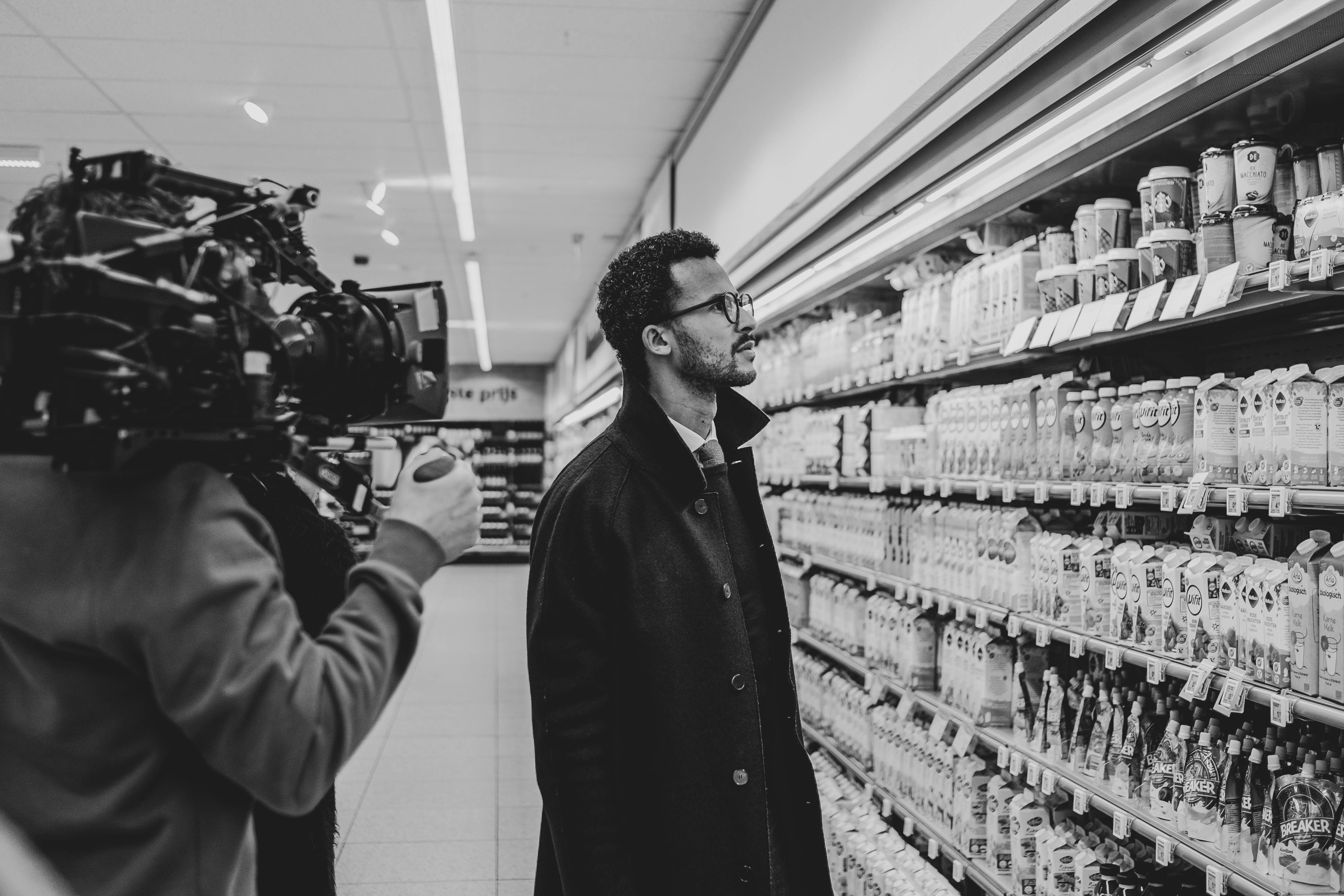 The file represents a picture of dr. Samefko Ludidi, a Dutch nutritionist, in a critical television show (2020) that investigates contemporary commercial products and 'big food'.